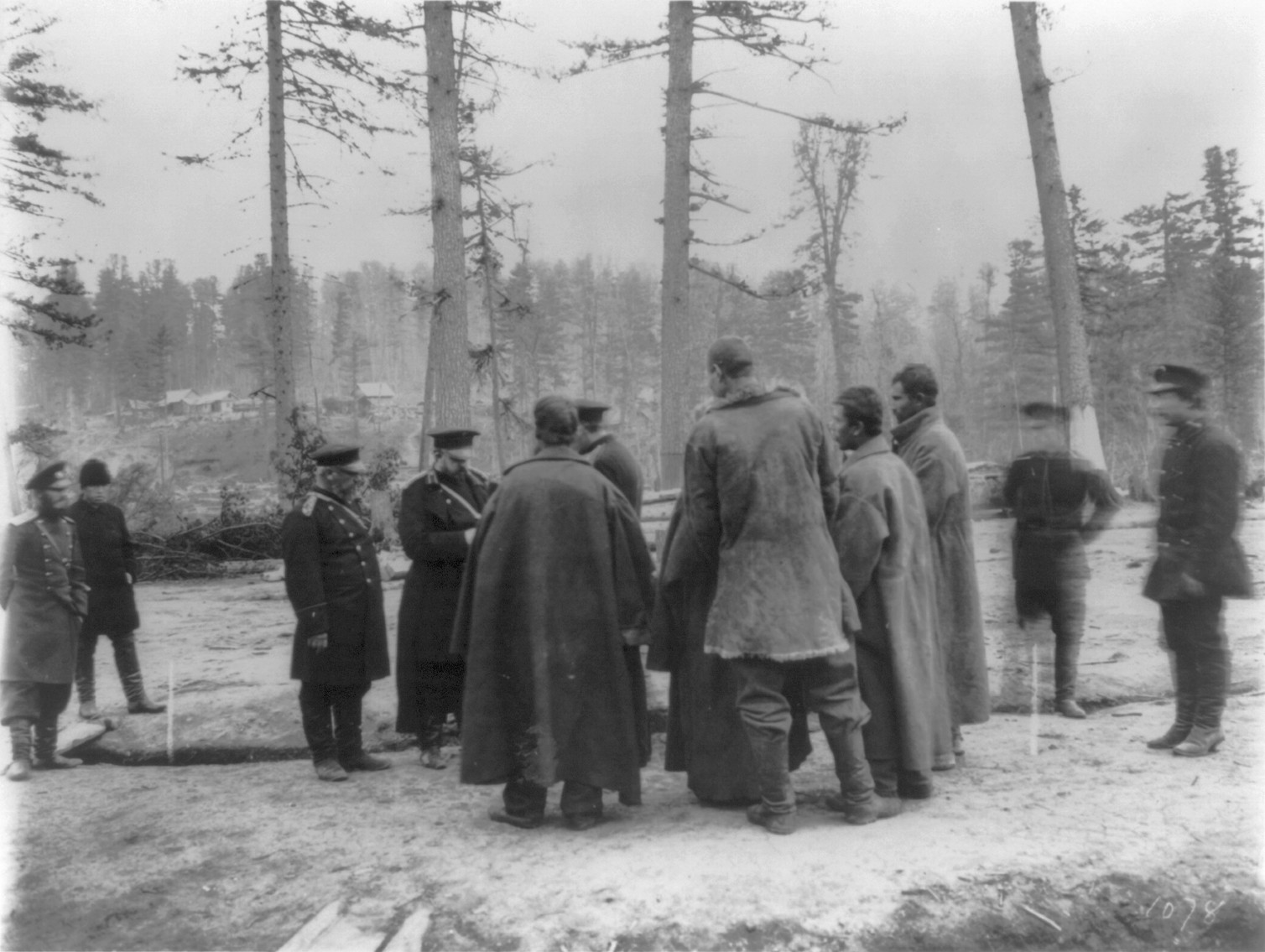 Convict railway workers, Ussuri region, Siberia (1895)